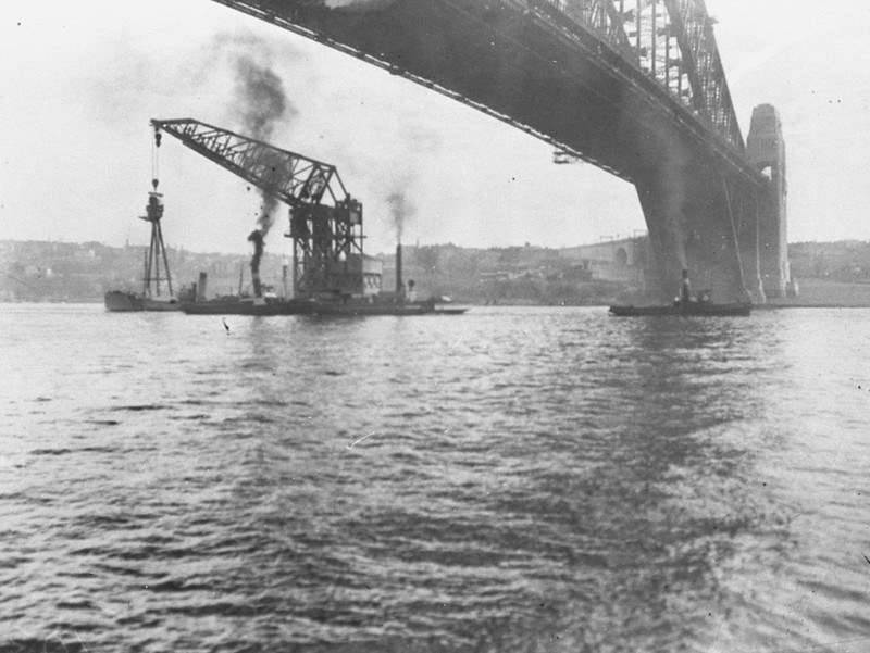 The floating crane Titan being towed under the Sydney Harbour Bridge (northern shore in background). The crane is supporting the foremast of the light cruiser HMAS Sydney, which is to be installed at Bradleys Head as a memorial. Photographs : 1 glass photonegative